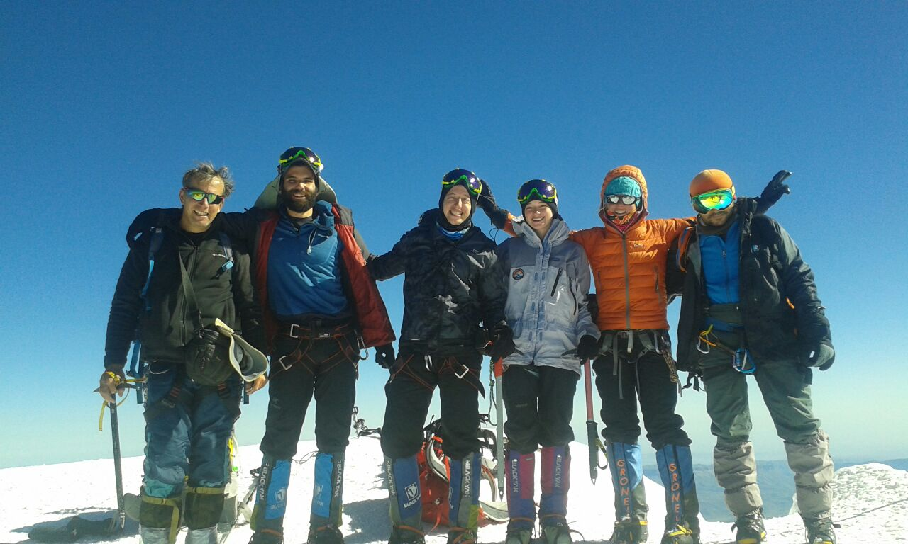 Elbrus 5462 m